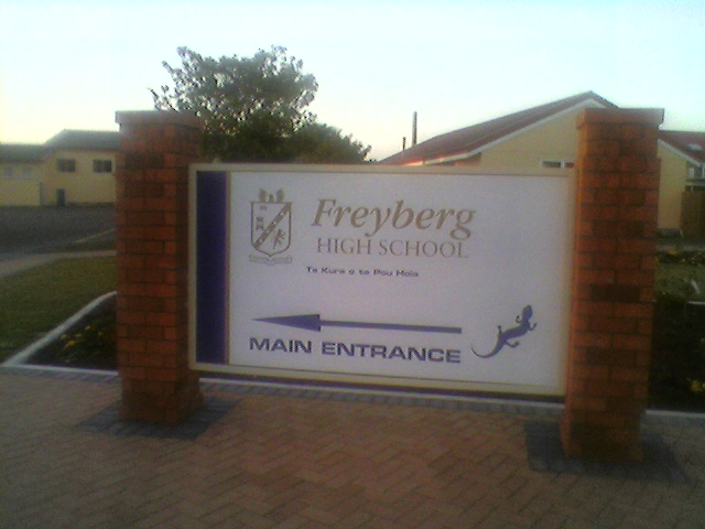 This is a photo taken from my phone of the entrance to Freyberg High School, Palmerston North, New Zealand.